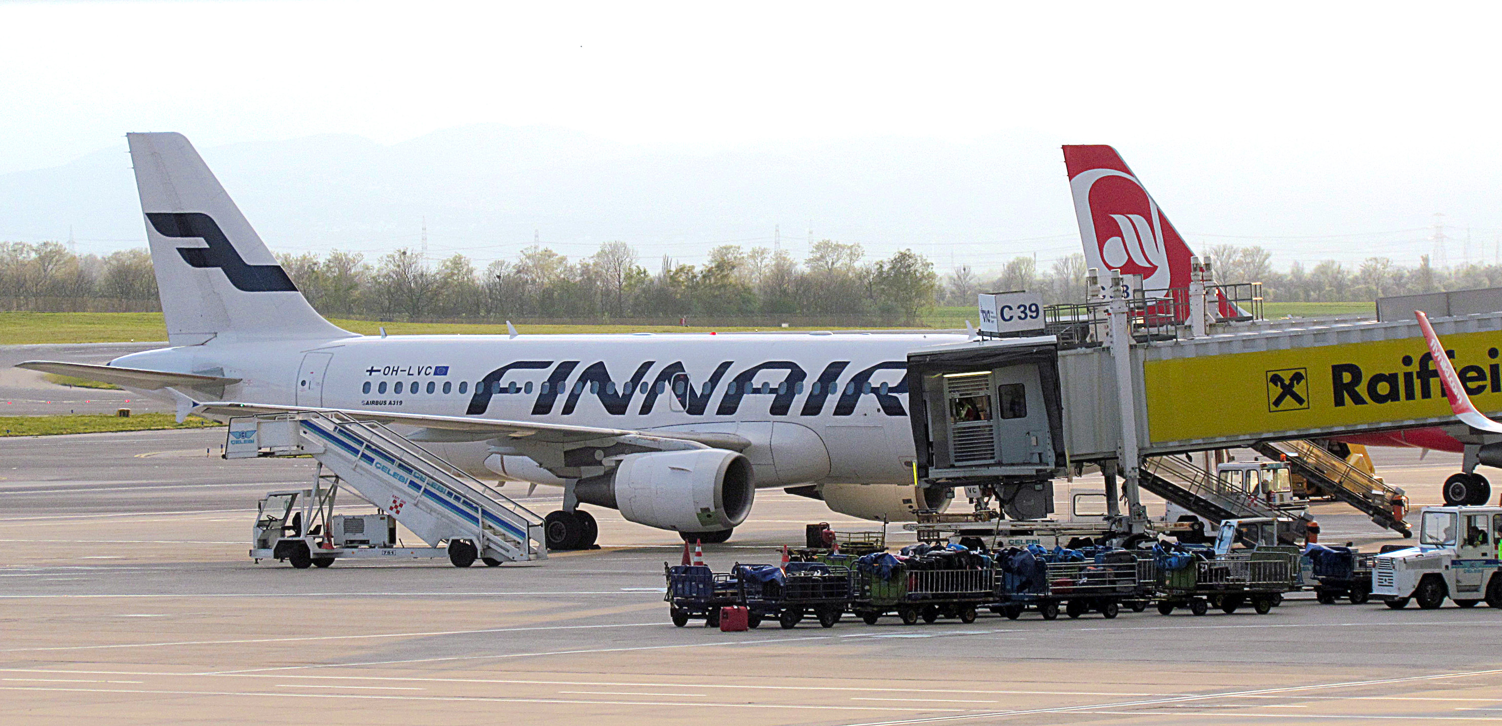 Finnair Airbus A319, Vienna airport